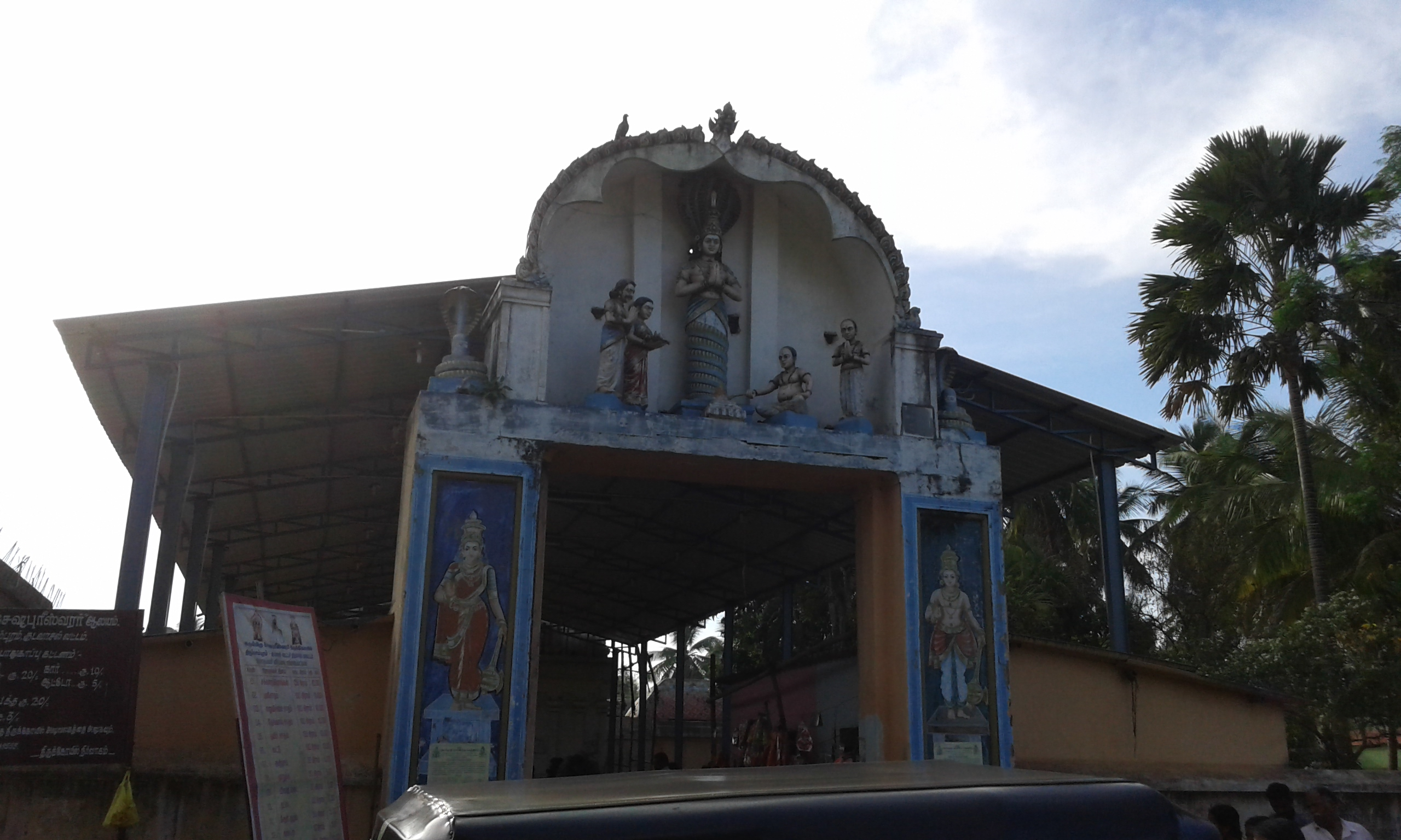 Paampuranathar Temple, Thirupampuram